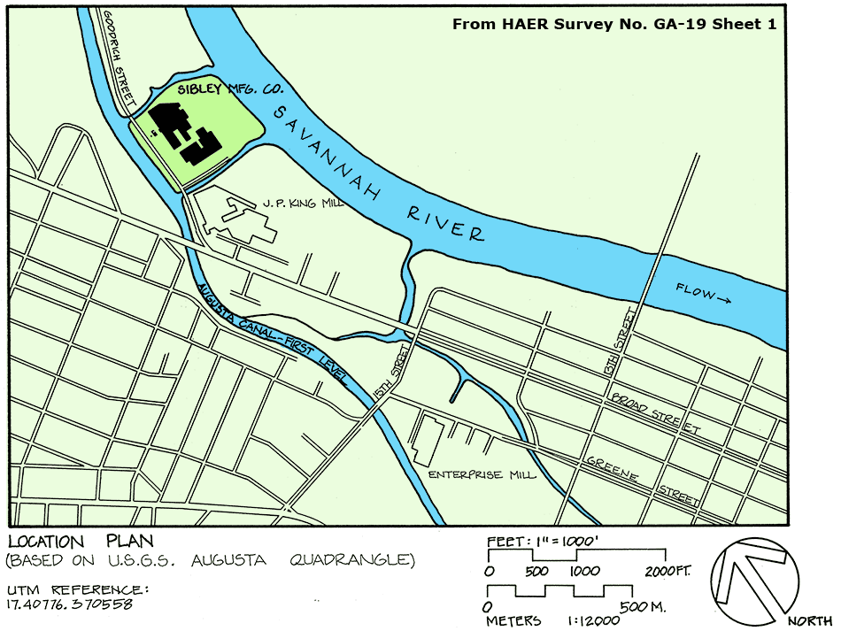 Sibley Mill Location Plan, in the City of Augusta, Georgia at 1717 Goodrich St. From Sheet 1 of 7 of drawings accompanying Historical American Engineering Record Survey Number GA-19 ca. 1977, non-creatively cropped and colorized by the submitter. Retrieved from Library of Congress web site, click on the link "7 drawings" and then the "Sheet 1" thumbnail. Link